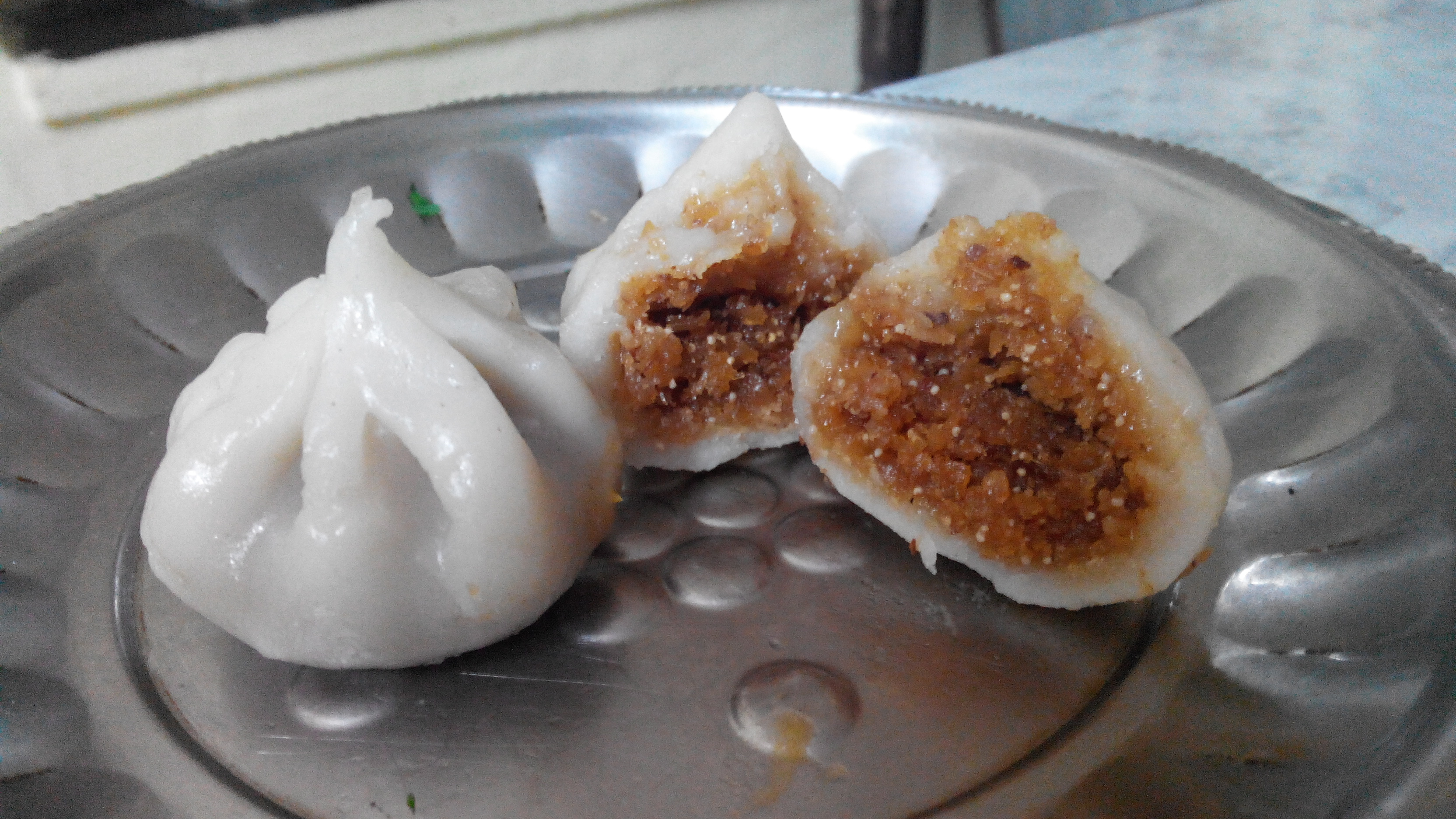 Ukadiche Modak